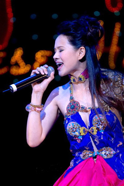 Annie Yi